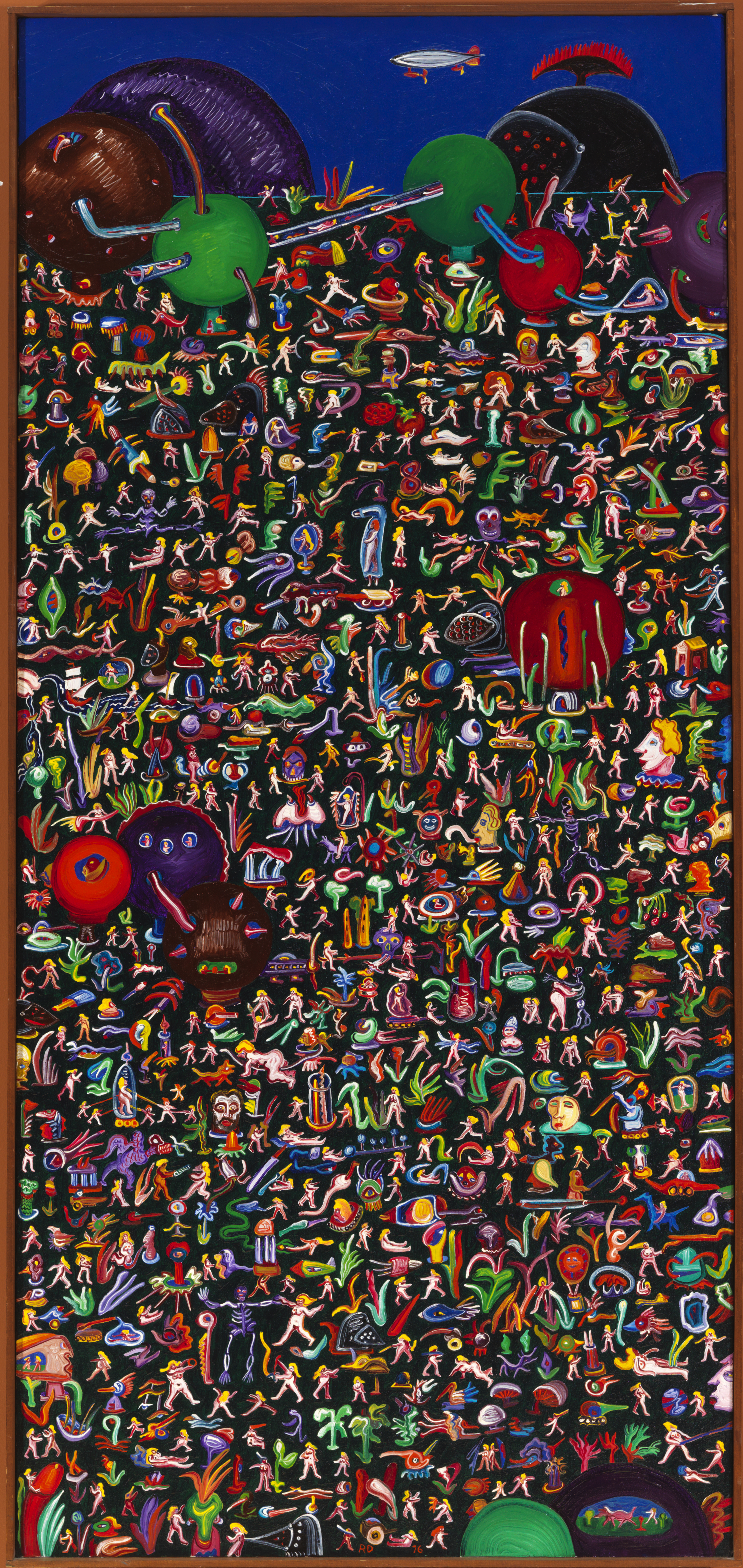 1970s original figurative landscape by Robert Donley